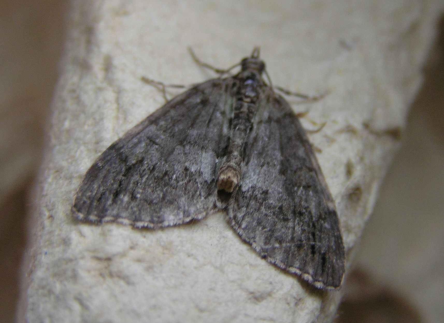 Hydriomena impluviata. Location: Goes, the Netherlands